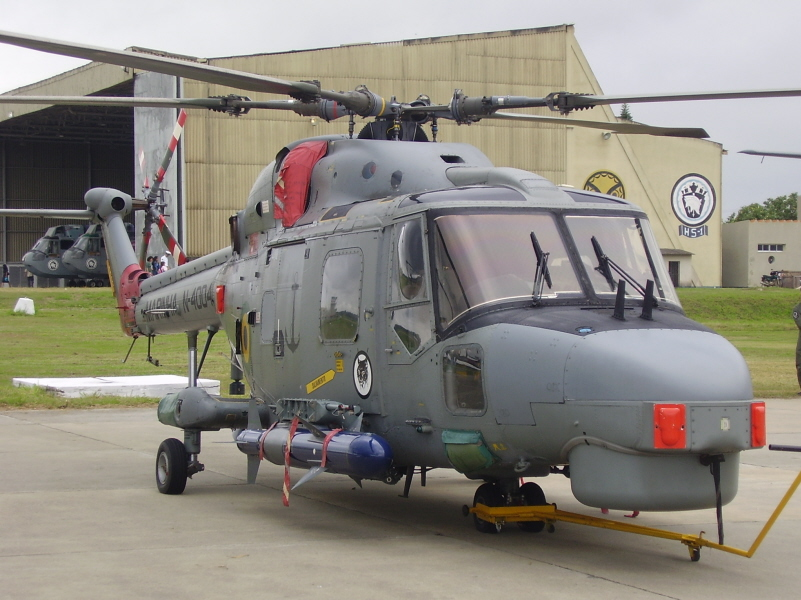 Westland Super Lynx Mk-21A, AH-11A N-4004 on static display during 89° anniversary Brazilian Naval Aviation in NAS São Pedro da Aldeia.